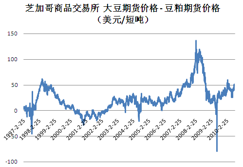 index price spread of CME soybean and soybean meal futures